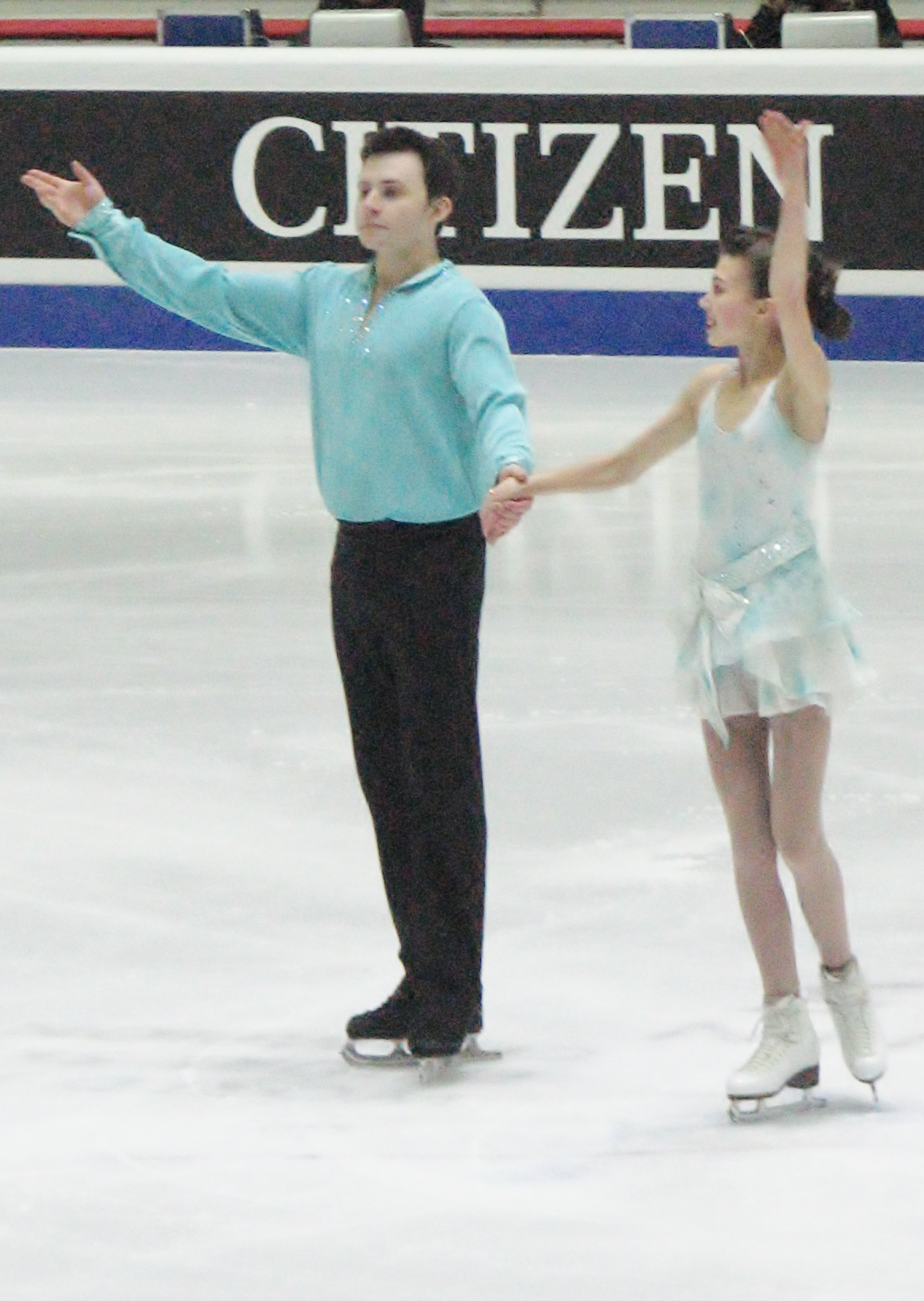 Mary Orr & Phelan Simpson representing Canada at the 2015 World Junior Figure Skating Championships